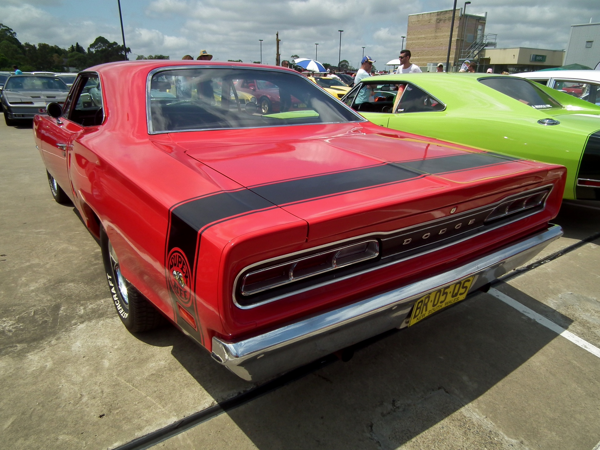 1969 Dodge Coronet Super Bee coupe. Taken at the 2014 New South Wales All American Day, held at Castle Towers Shopping Centre, Castle Hill, Sydney.